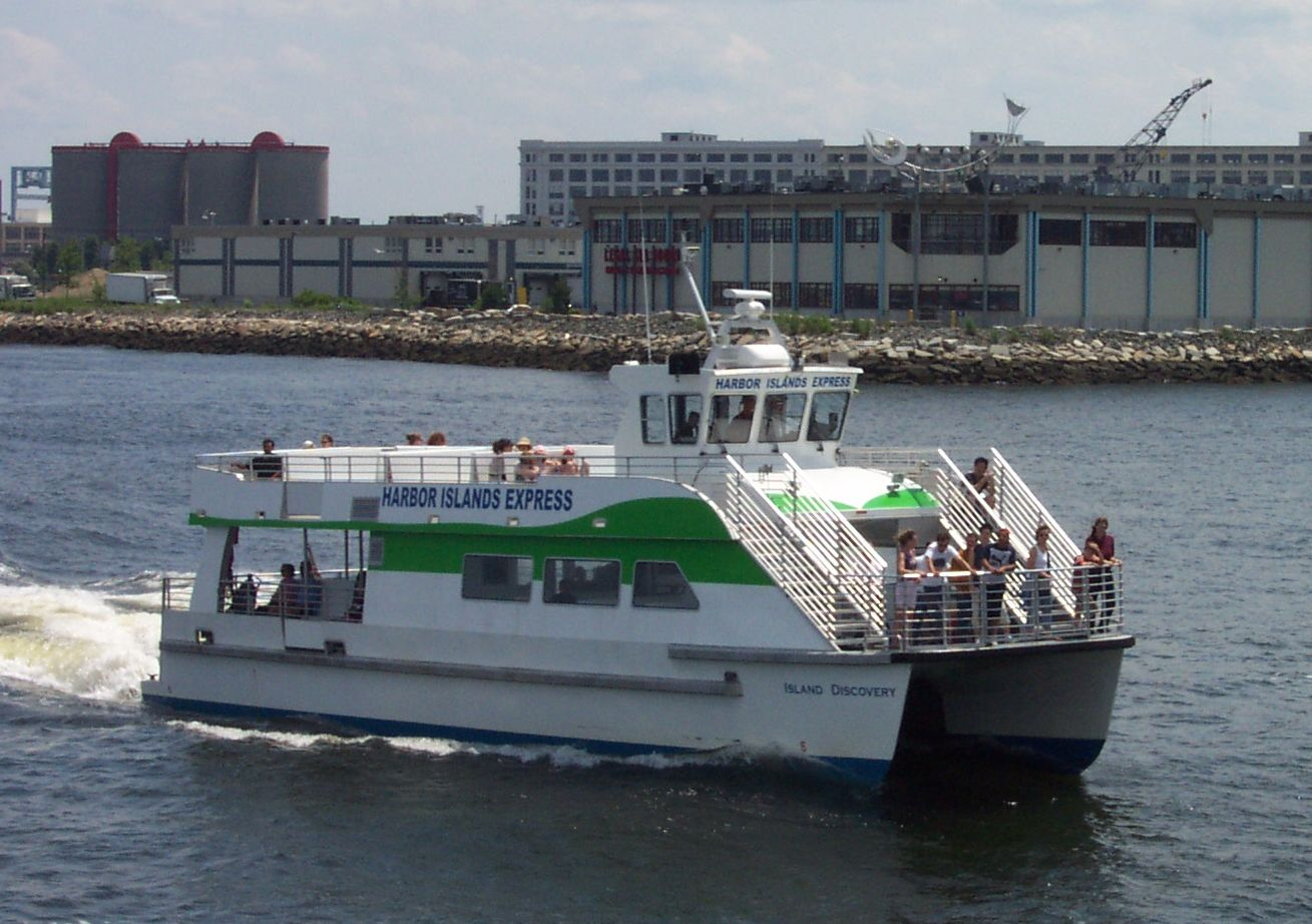 Boston Harbor Islands Express ferry